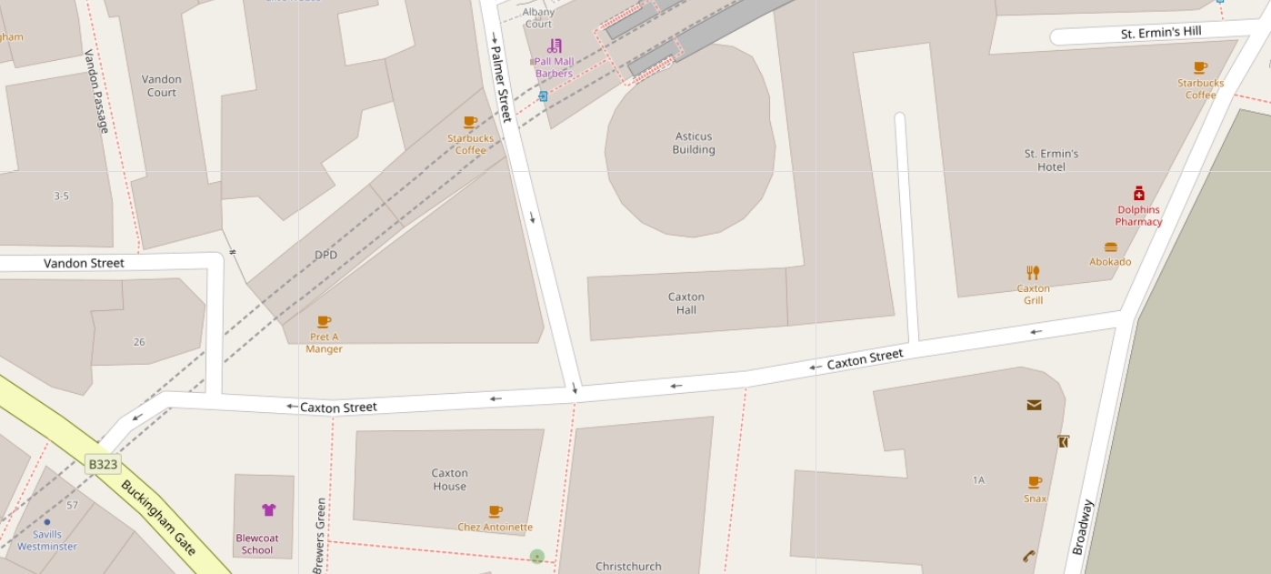 Map of Caxton Street, London